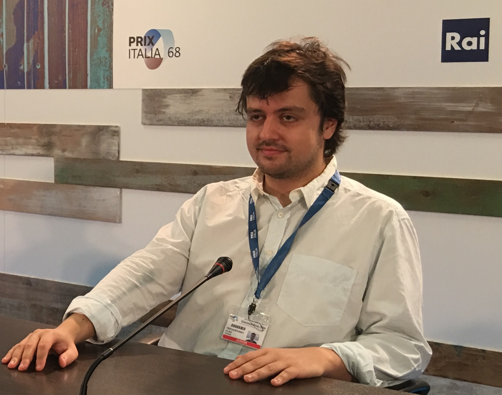 This photo was made at Prix Italia in Lampedusa, 2016